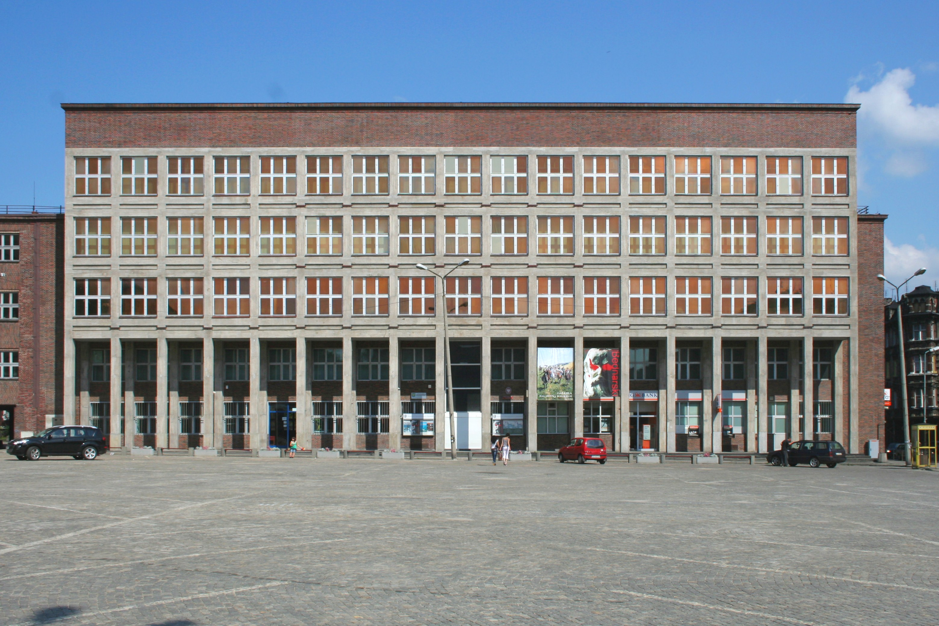 Upper Silesian Museum in Bytom.